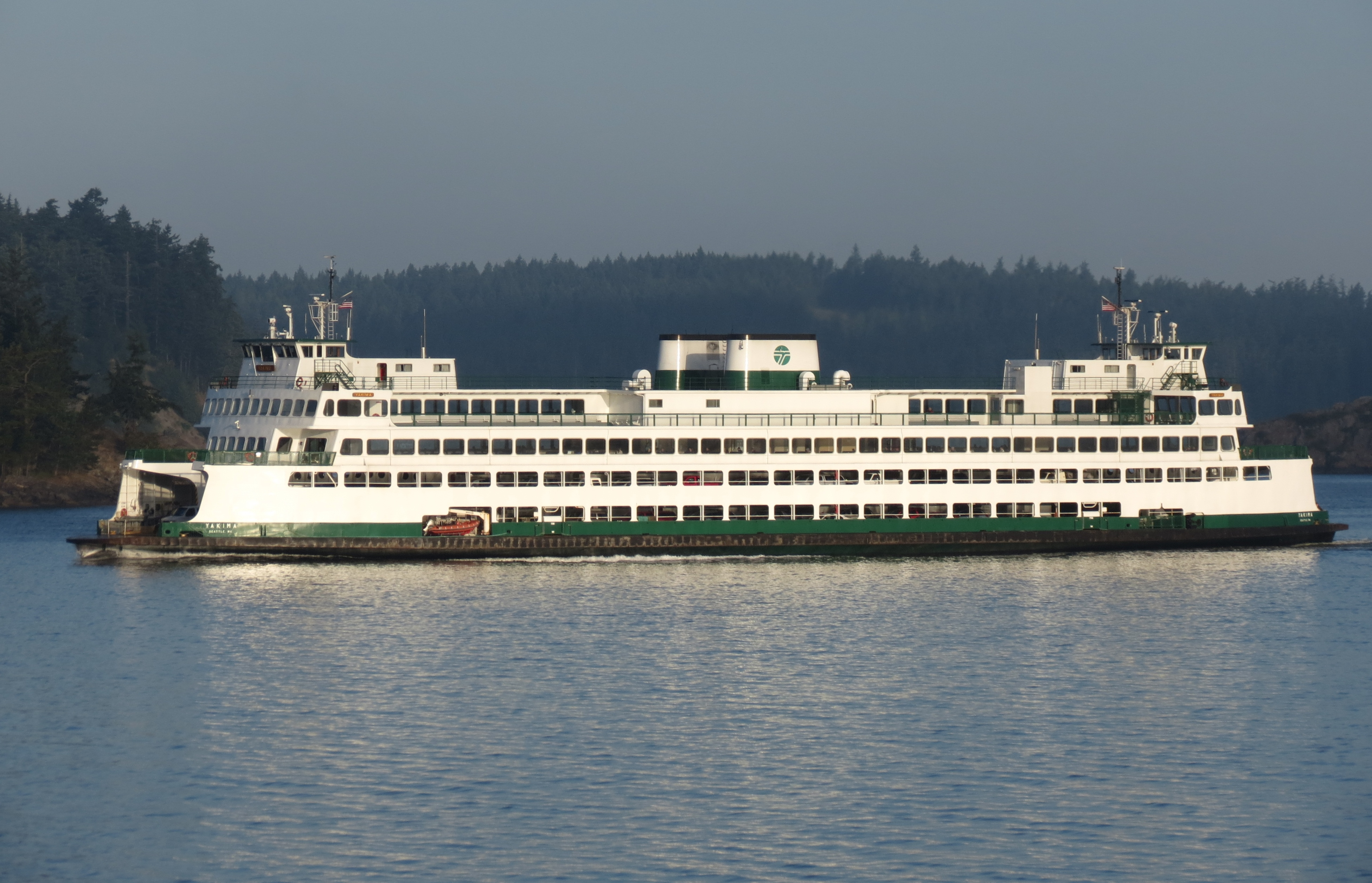 The Yakima passing the Chelan, which I am on.